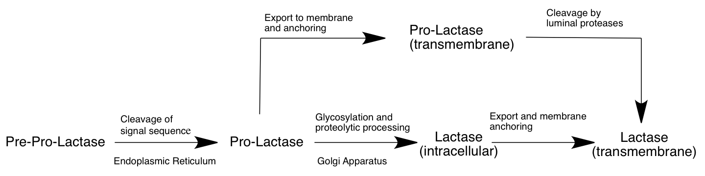 Processing of human lactase